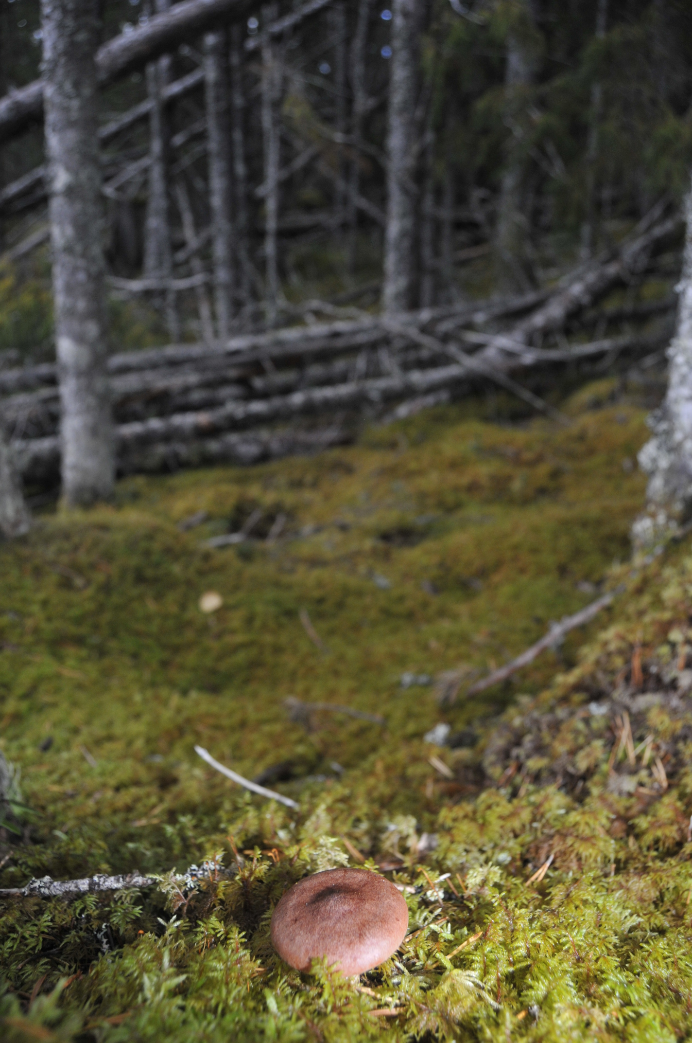 Gäle natural forest reserve in Jämtland County, Sweden